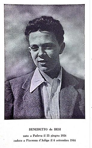 Benedetto de Besi . Italian partisan